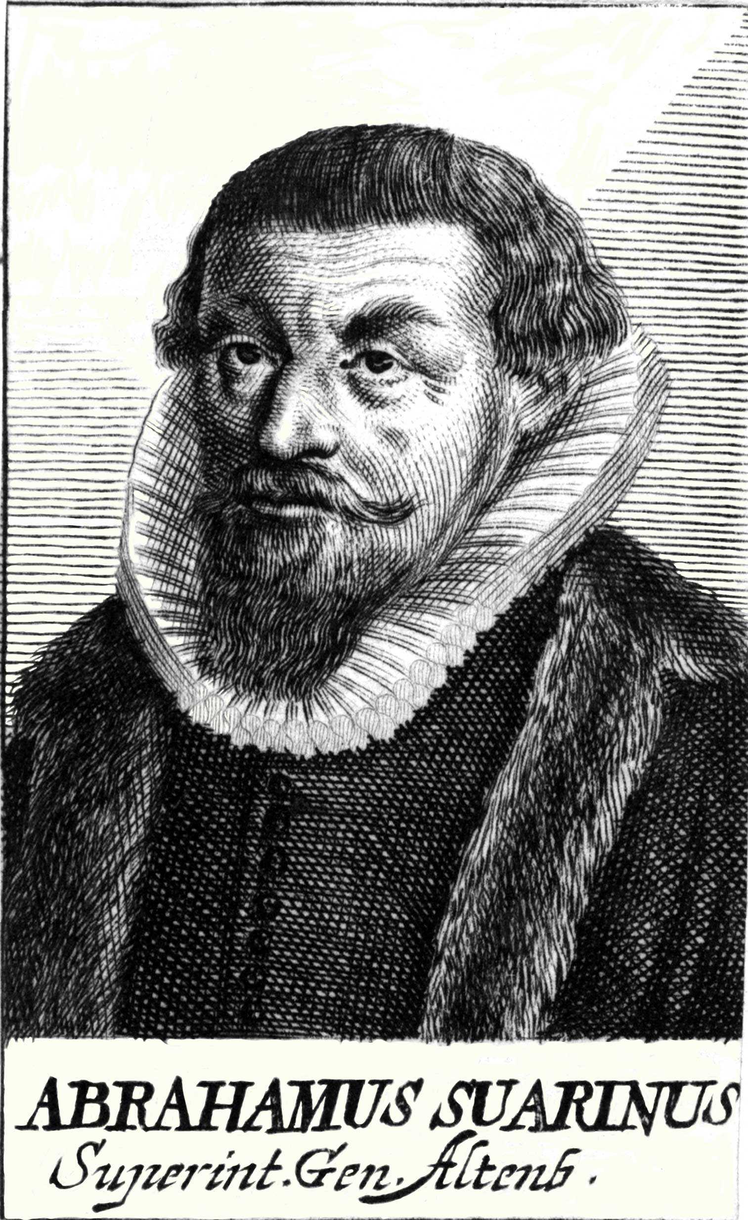 Abraham Suarinus (1563-1615), protestant Theologian from Germany